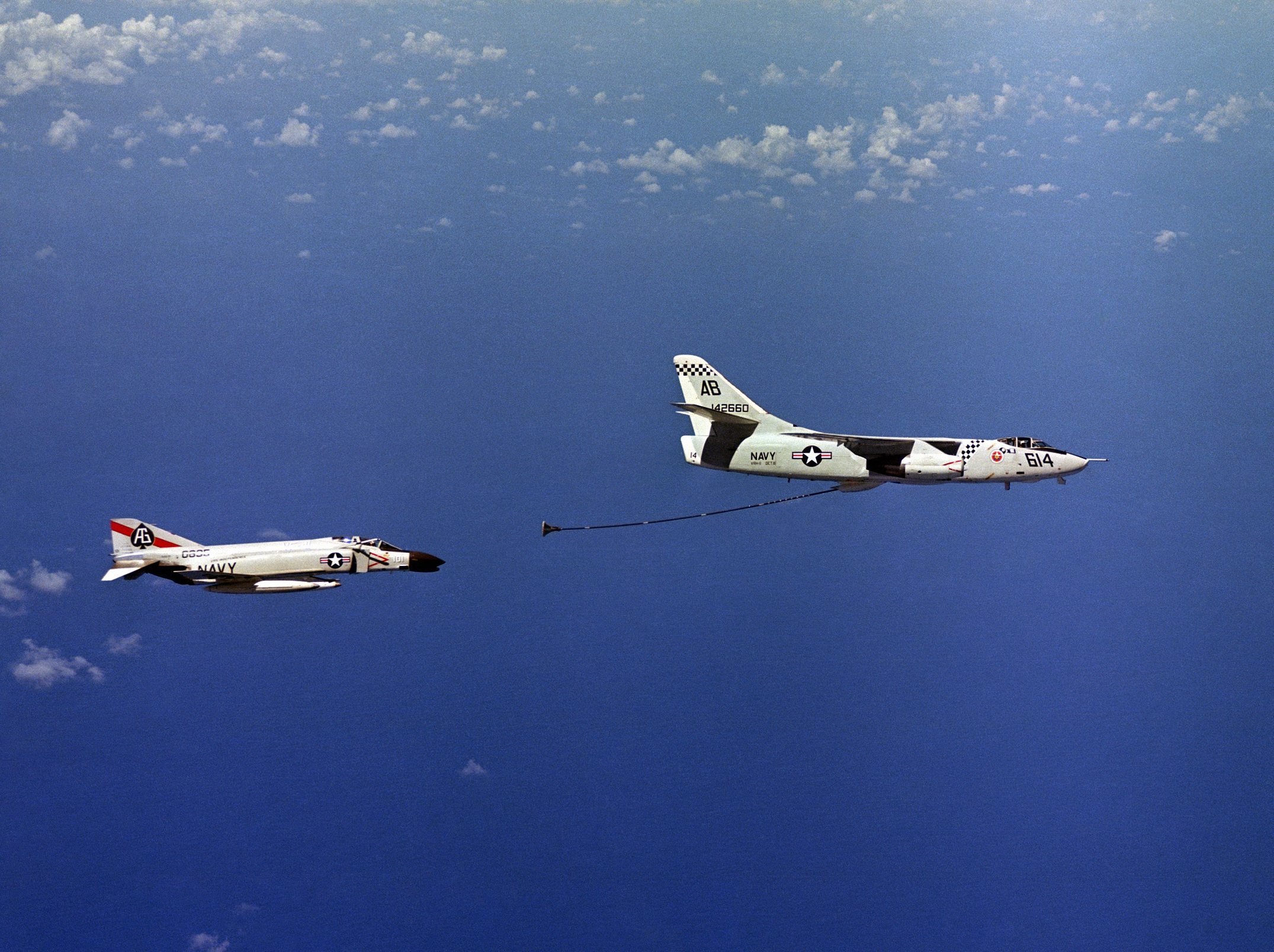 A U.S. Navy McDonnell F-4B-14-MC Phantom II (BuNo 150635) of Fighter Squadron VF-41 "Black Aces" approaches a Douglas A-3B Skywarrior (BuNo 142660) of Heavy Attack Squadron VAH-11 Det.8 "Checkertails" for inflight refueling. Both squadrons were assigned to Carrier Air Wing 7 (CVW-7) aboard the aircraft carrier USS Independence (CVA-62) in 1964. Note that VAH-11 Det.8 kept its CVW-1 tail code "AB".